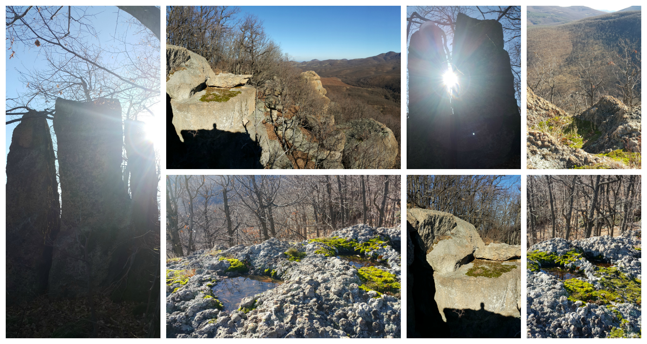 Karaulkata Peak Northeast Rhodopes Mountain Bukovo Bulgaria